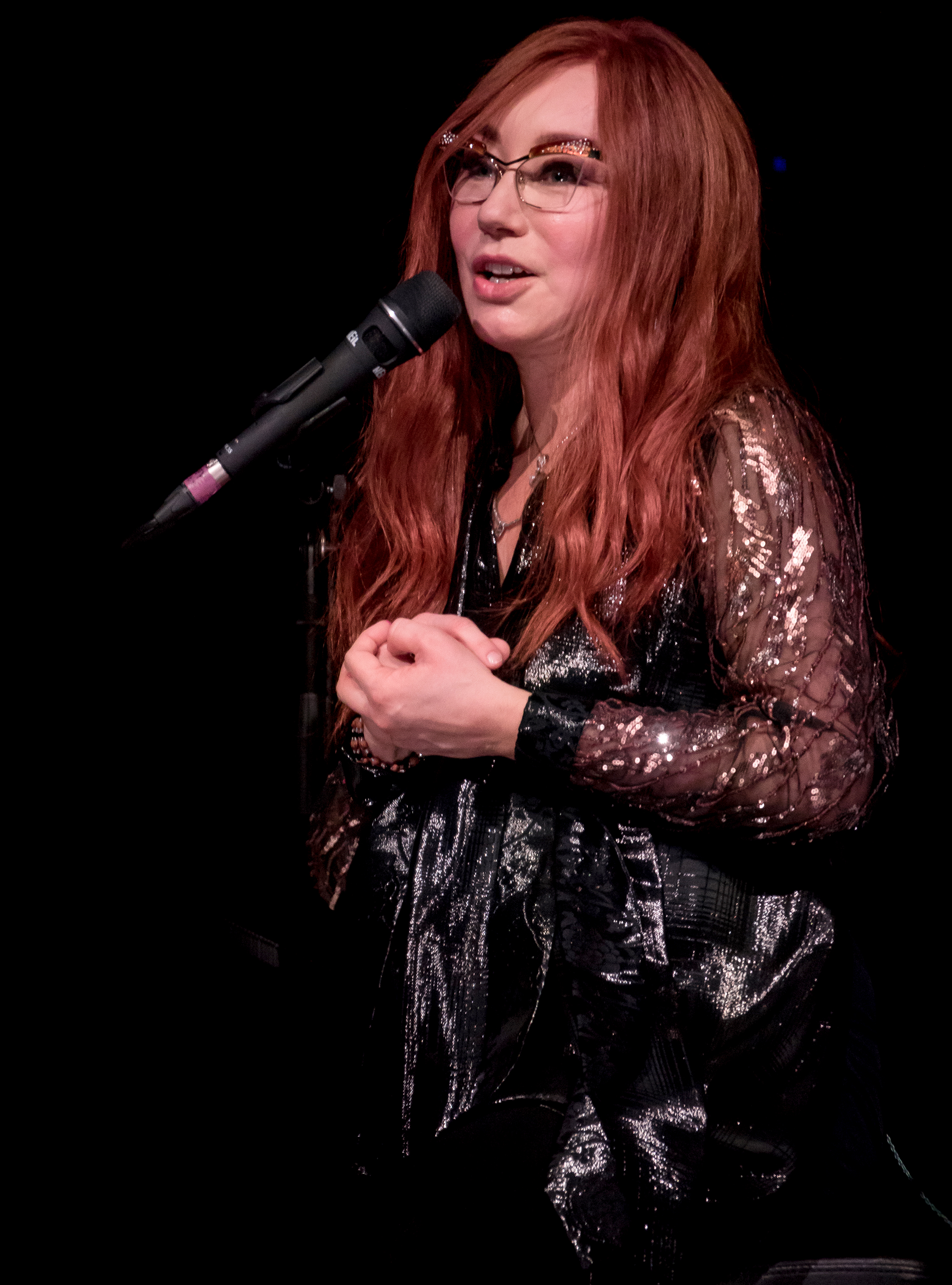 Tori Amos performing live at the Theatre at Ace Hotel in downtown Los Angeles, California, on Friday, December 1, 2017. This was the first of three sold out nights at this venue for Tori.